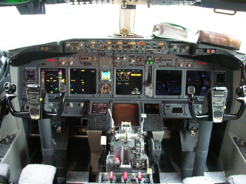 Cockpit of the Boeing 737-800, ATA Airlines, aircraft registration: N314TZ. Photo taken at the Chicago-Midway Airport, Chicago, Illinois, USA (Airport ICAO code: KMDW).